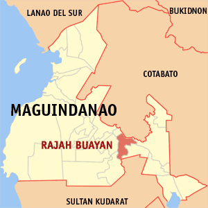 Map of the Maguindanao showing the location of Rajah Buayan